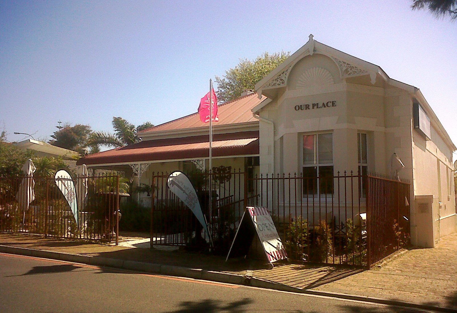 This Victorian building houses a restaurant (as on 25 September 2012). This media shows a South African Protected Site with SAHRA file reference 9/2/012/0004.